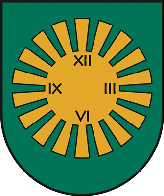 Coat of arms of Priekuļi municipality